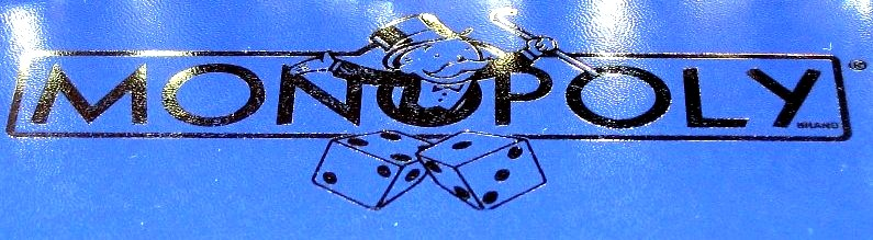 The tokens from the US Deluxe Edition Monopoly. Detail of the Rich Uncle Pennybags Created by wikipedian ScooterSES Jul. 22, 2005